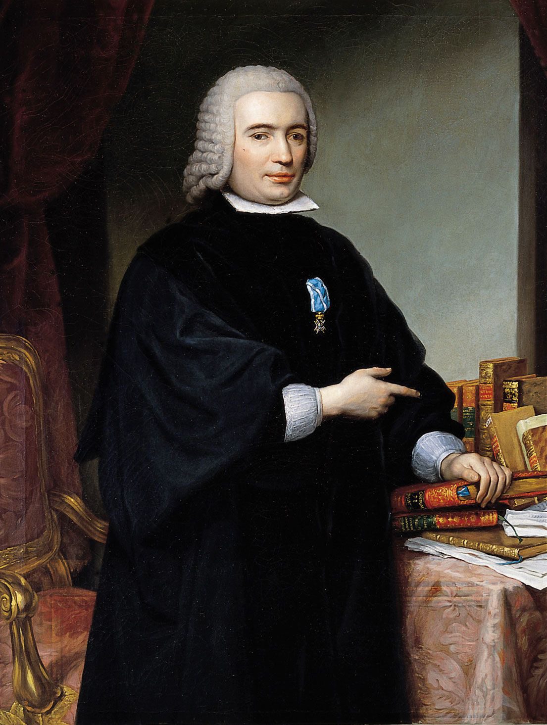 Portrait of the first Count of Campomanes